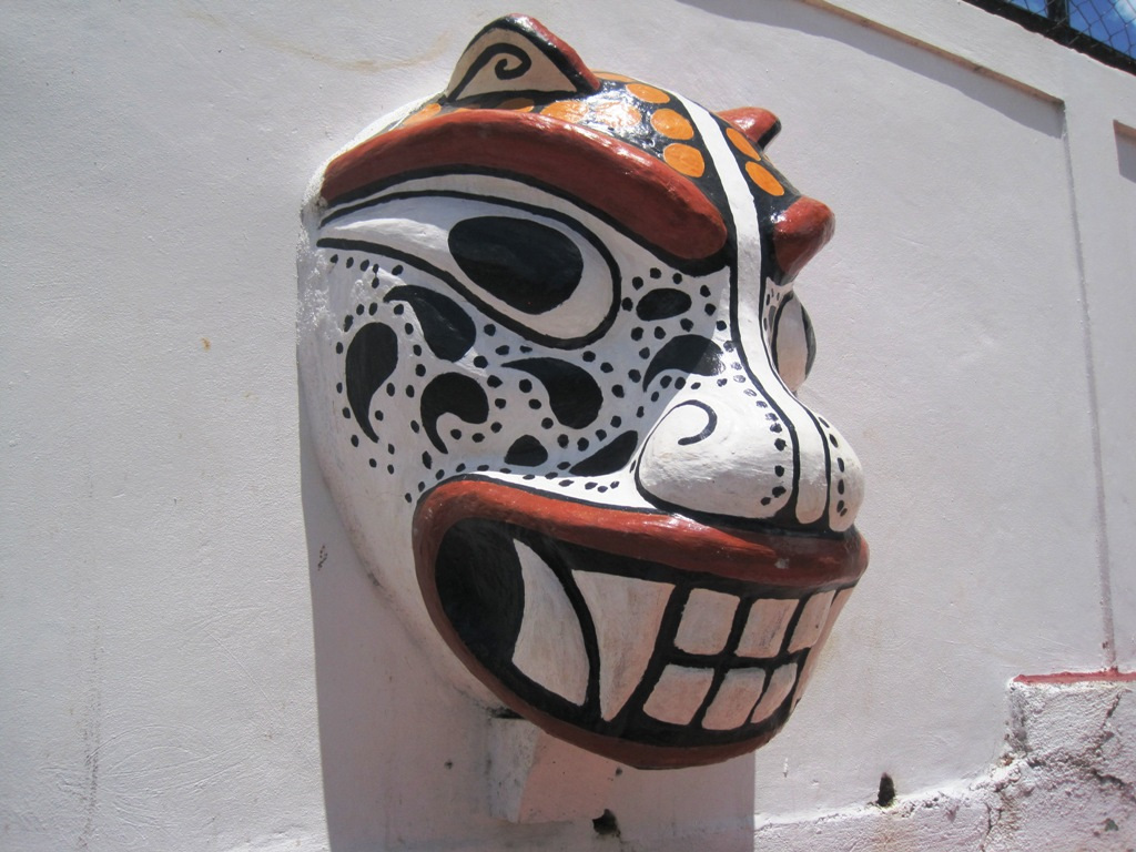 San Juan de Oriente, Nicaragua